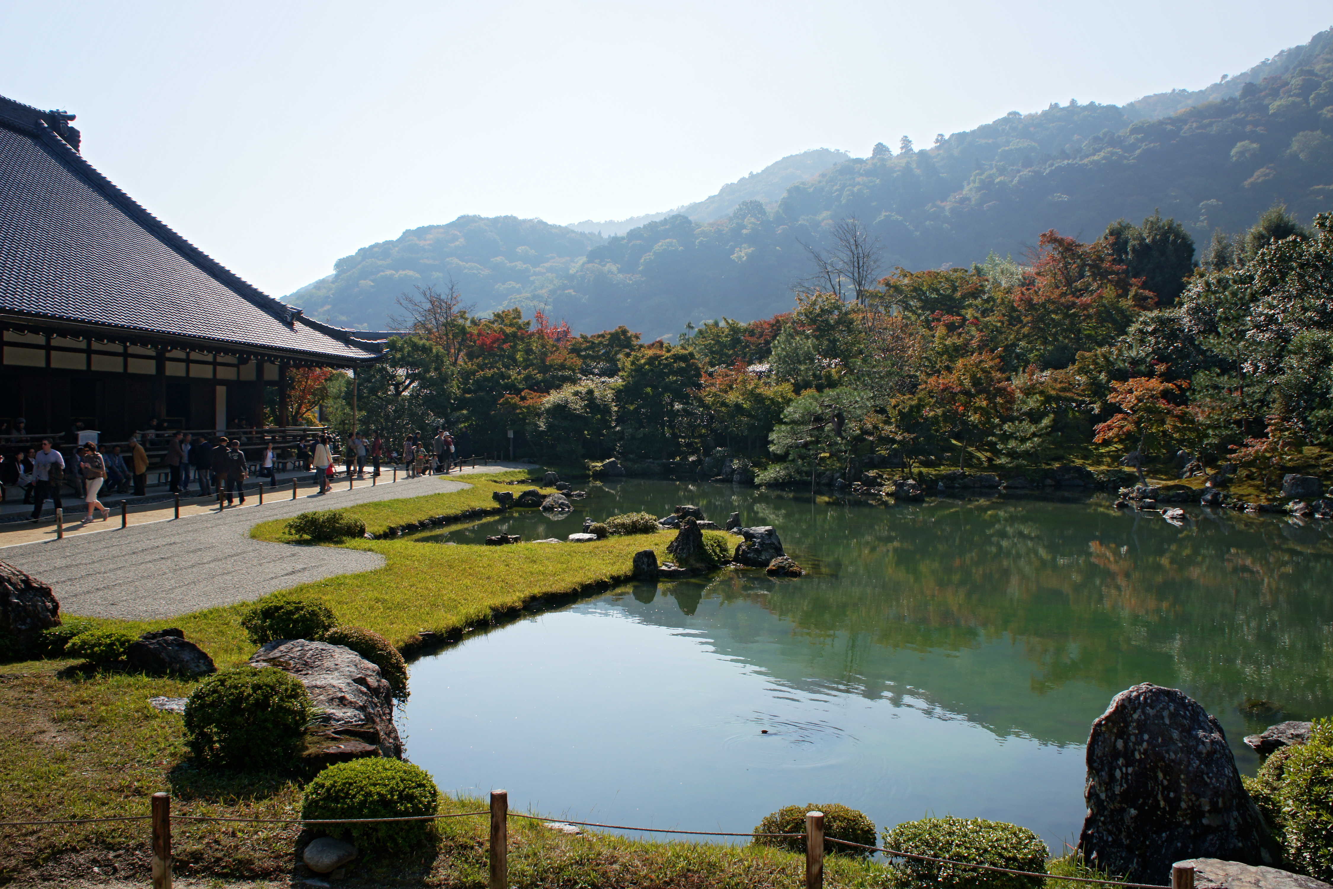 Tenryuji is a Buddhist temple in Kyoto, Kyoto prefecture, Japan. It was registered as part of the UNESCO World Heritage Site "Historic monuments of ancient Kyoto".